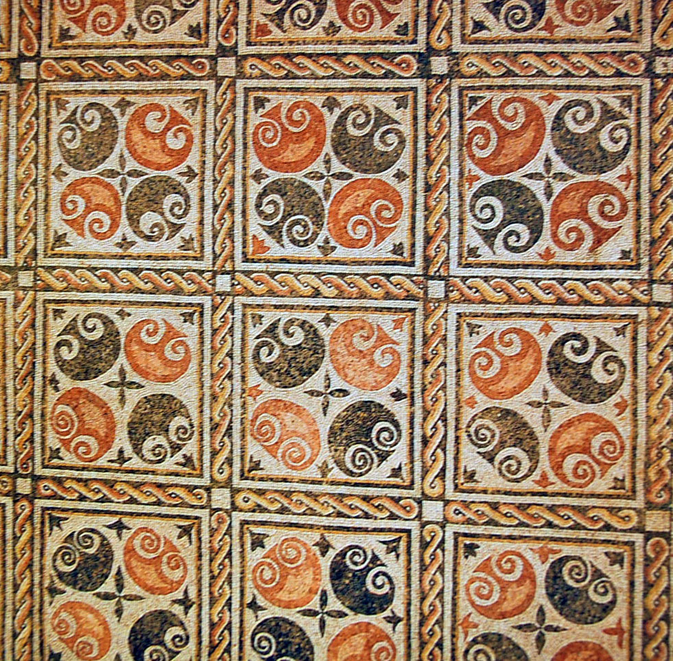 Ancient roman mosaic of the V-17 room in the roman vila of La Olmeda in Pedrosa de la Vega (Palencia, Castile and León).